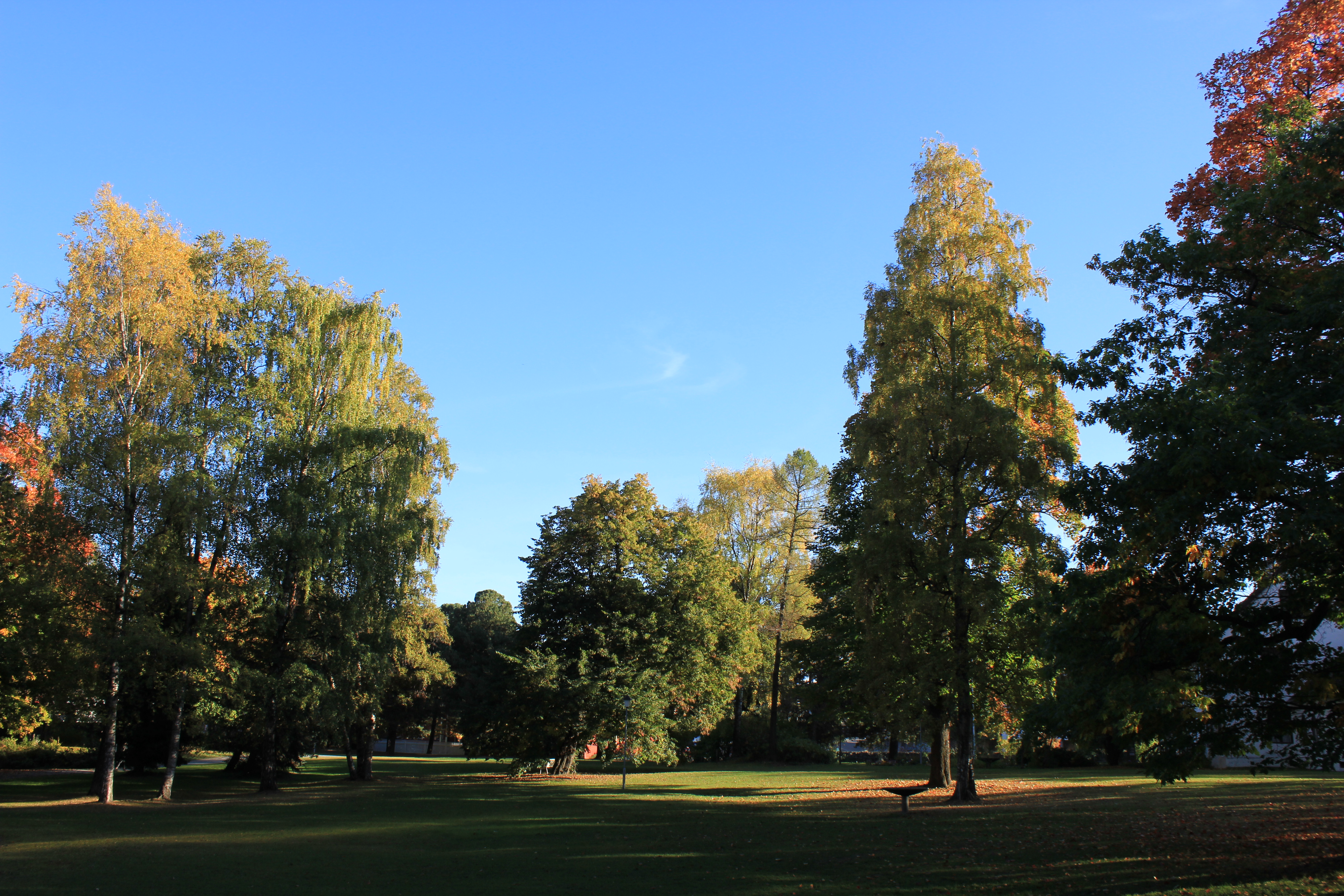 Gjøvik Gård is the central park of Gjøvik, Oppland, Norway.